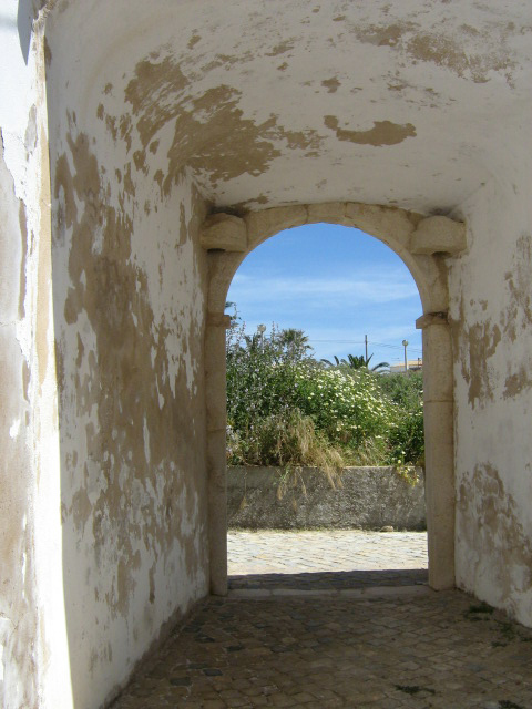 View of the inside of the entrance to the former fort at Carvoeiro (Lagoa), Algarve, Portugal.